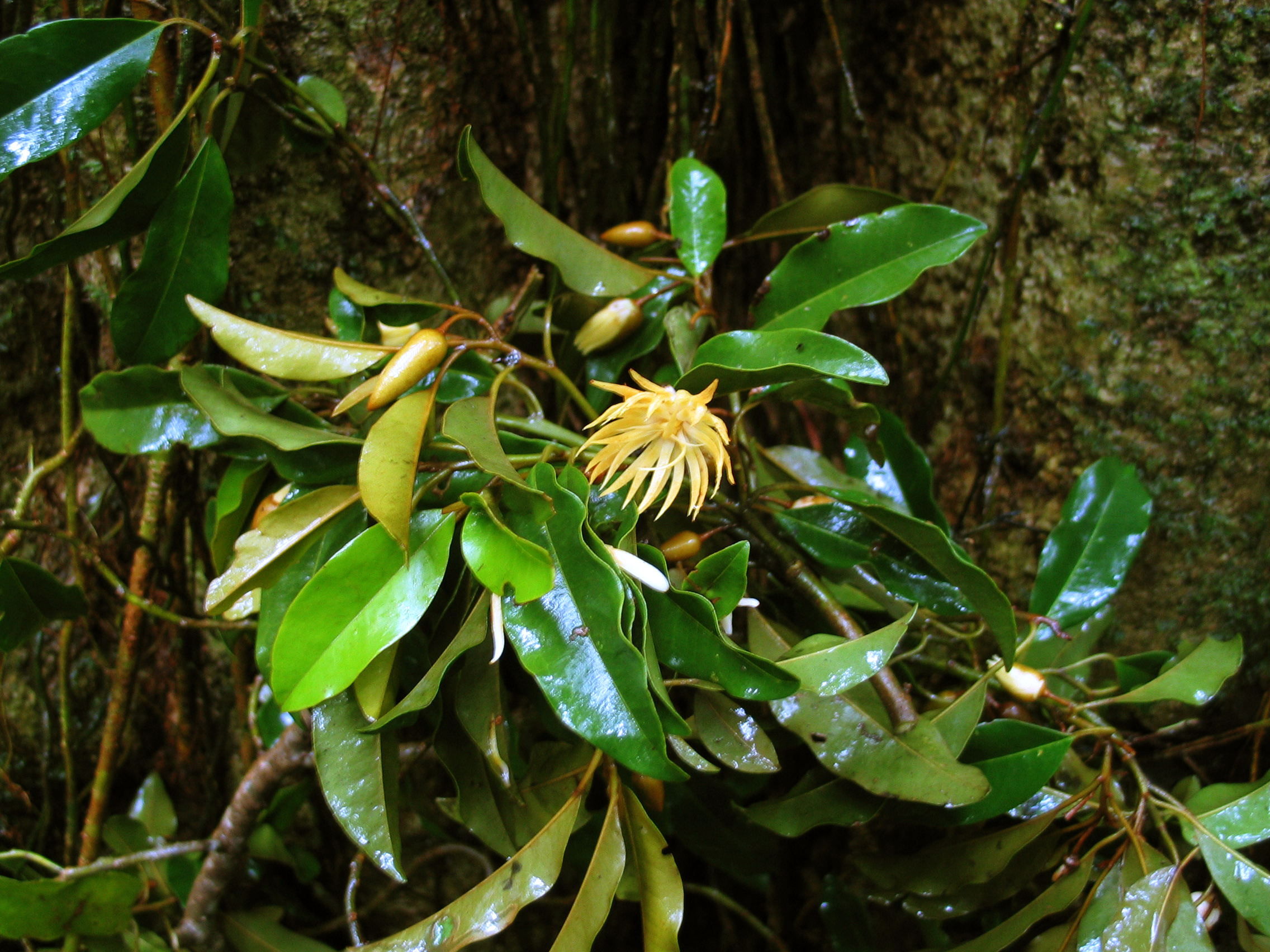 Galbulimima baccata (Himantandraceae) is considered to belong to one of the world's most primitive flowering plant families. It is a tall tree and grows in well developed rainforest in north-east Queensland and south-east Queensland. Although called many names, it is commonly referred to as either “Magnolia" or “Pigeonberry Ash".